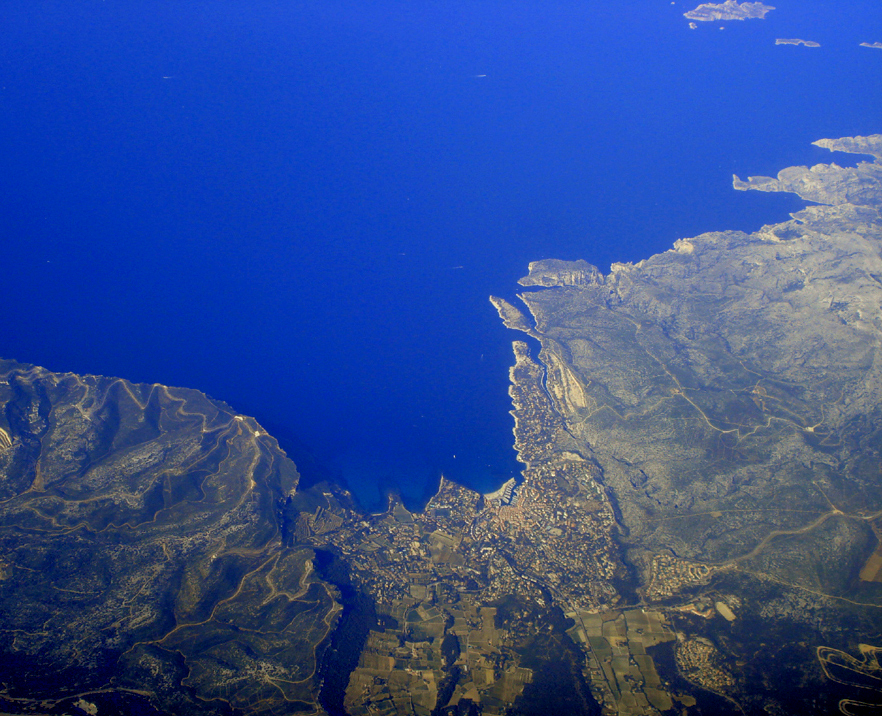 Cassis harbour and cap canaille (= Dirty Cape), near Cassis, Department of Bouches du Rhone, France. The portion of the coast wich contain the "Cap Canaille" is in the PACA region - by BRGM, IFREMER, and the french "Earthquake Master plan" - the site most at risk of "unstable slopes withmobilizationbrutal field" when significant seismic. The collapse of the terrestrial and submarine such a structure would generate a Tsunami and a wave background can resuspend enormous amount of fine particles from the underwater industrial discharge close (Fosse Cassidaigne) of plant Pechiney / Alcan Rio Tinto. in french, this sort of area is called "tsunamogéniques"